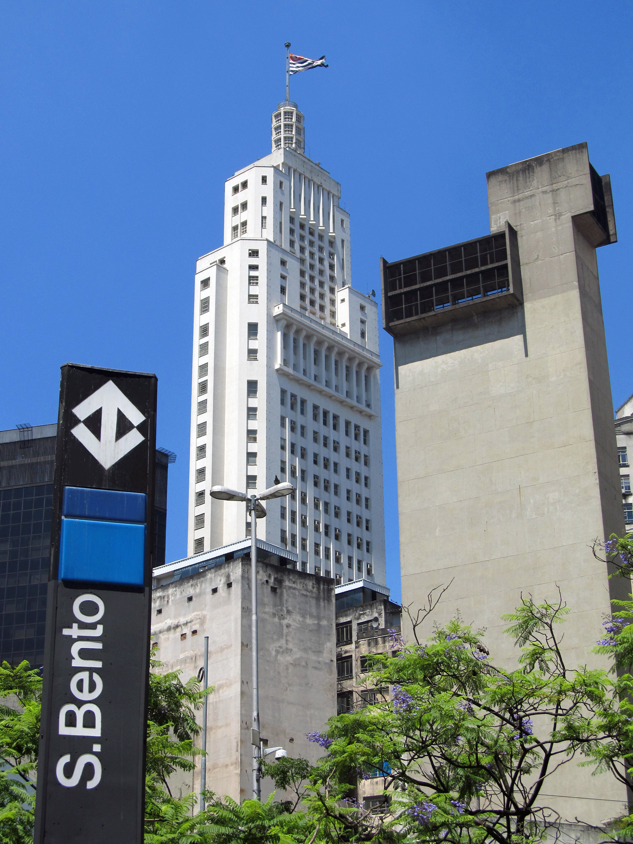 A Subway Station sign, the Banespa Building and a subway ventilation shaft ruining the view in downtown Sao Paulo, Brazil.